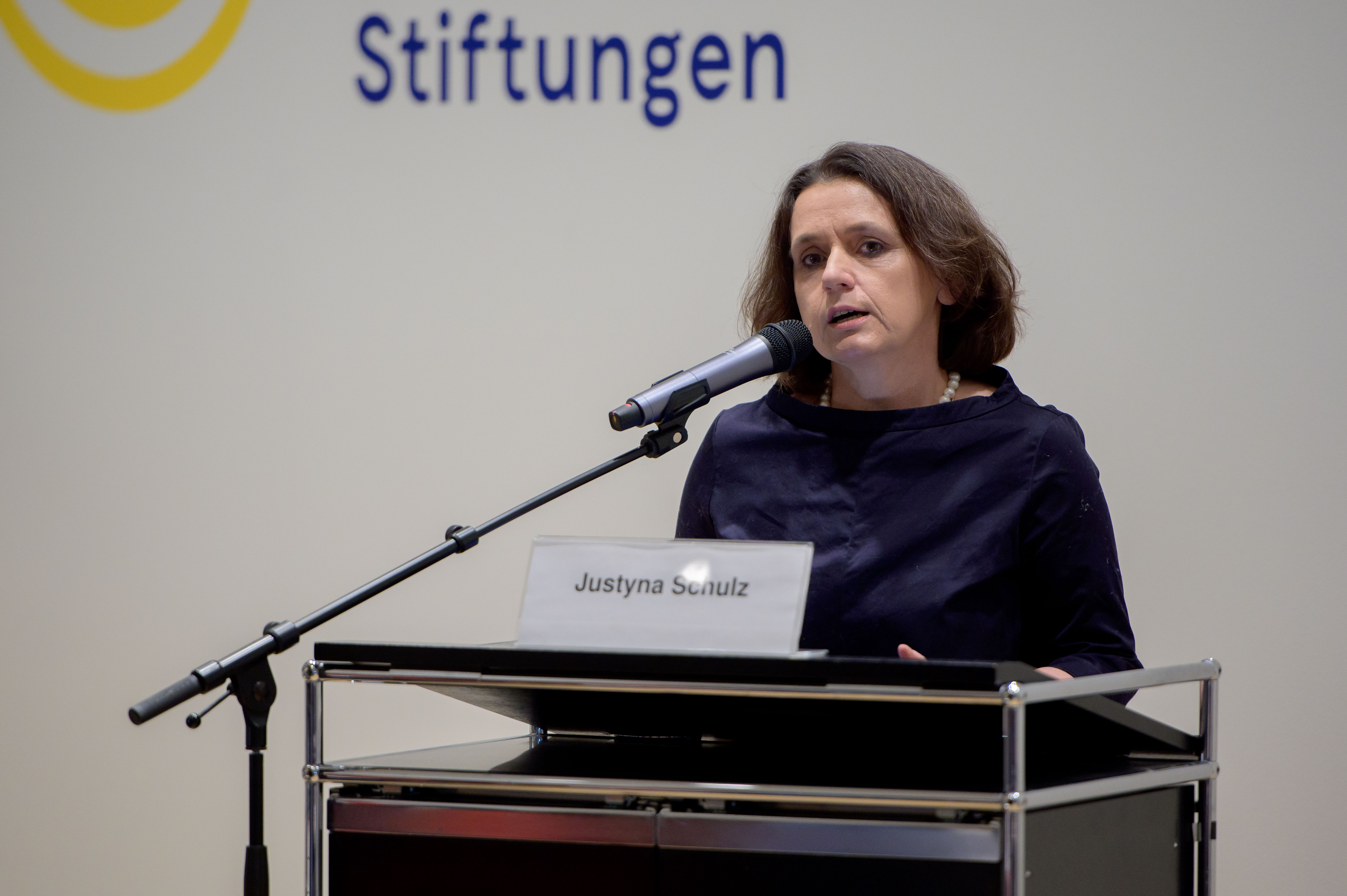 Heinrich-Böll-Stiftung: Auf dem Weg zu einer EU-Energieunion: Das Beispiel der EU-Gasrichtlinie (14 March 2019) Dr. Justyna Schulz (Director of the Instytut Zachodni, Poznan) Photo: Bodo Gierga